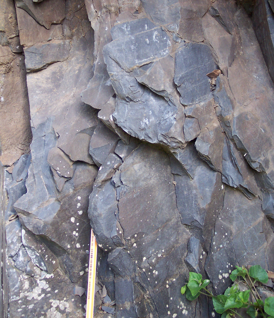 Banded slate of a distal flysch facies. The light bands within the grey slate represent distal turbidites (Early Carboniferous, Clausthal Kulm Fold Belt, NW Hartz Mountains, Central Germany)